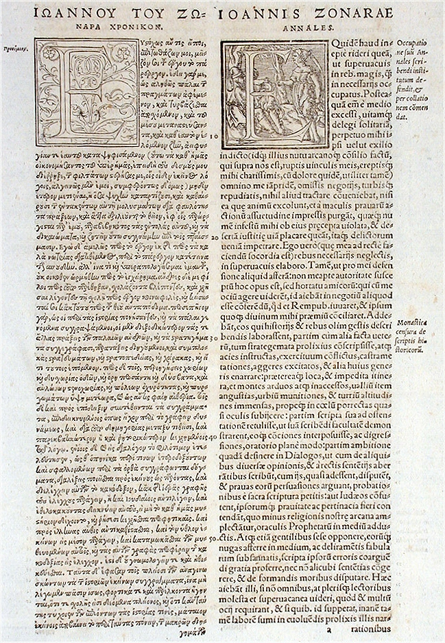 Zonaras, Epitome Historiarum in Tomus Primus